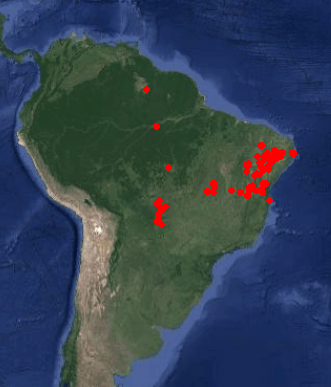 Occurrence data for Psittacanthus cordatus downloaded from GBIF, 24 May 2018.